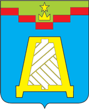 Dedovsk (Moscow oblast), coat of arms (1989)